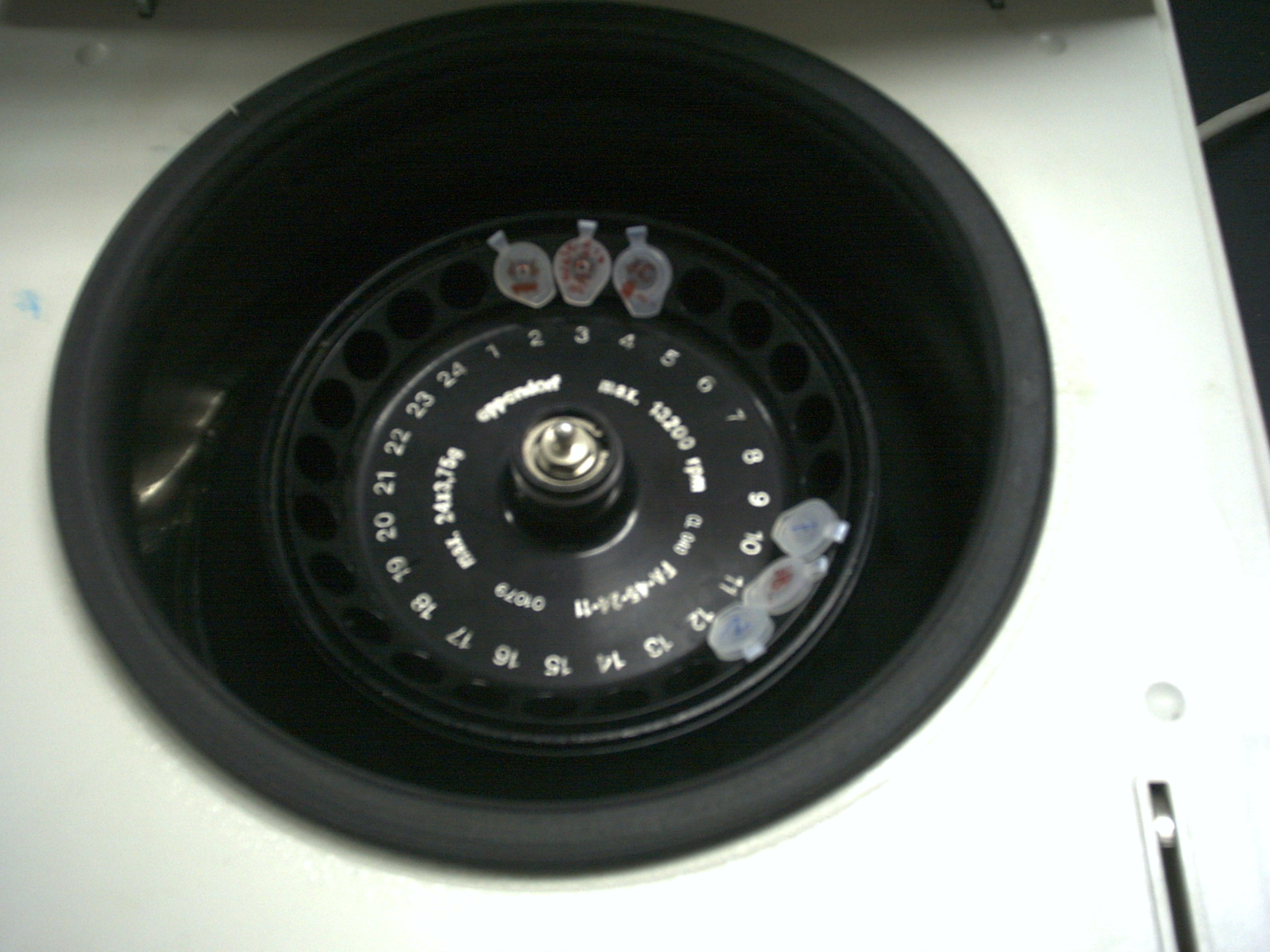 centrifuge